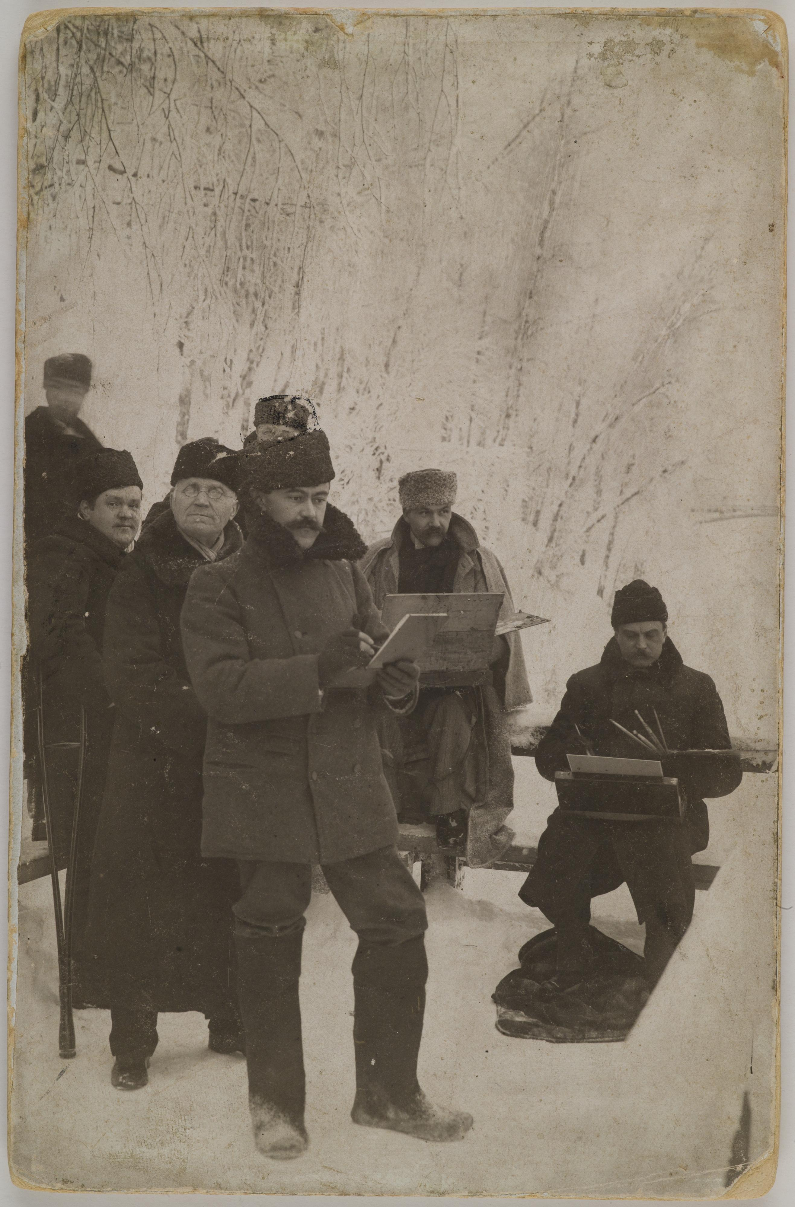 Axel Gallén taiteilijakollegoineen maalaa Imatrankoskea vuonna 1893. Gallén on taka-alalla keskellä, edessä Louis Sparre ja istumassa Albert Edelfelt, vasemmalla kainalosauvan kanssa Karl von Knorring. Vuonna 1893 Gallénilta valmistui neljä Imatrankoski-aiheista maalausta. kuvauspaikka: Imatra ajoitus: 1893 kuvaaja: kuva-alan mitat: 201x131mm tekniikka: merkintöjä: inventointinumero: Kot. 1 a/35 kokoelma: Akseli Gallen-Kallelan valokuvakokoelma tutki lisää / explore further: Tiedätkö lisää tästä kuvasta? Kerro meille! Do you have information on this photo? Let us know!